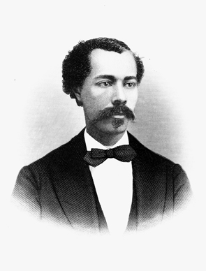 John R. Lynch, member of the United States House of Representatives.